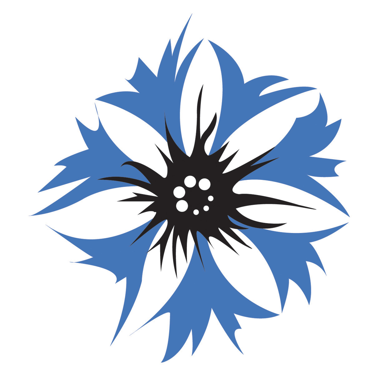 all rights with the Cte... free to publish